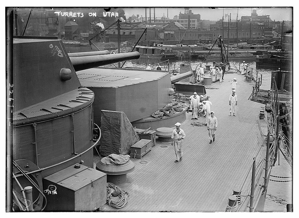 Turrets on USS Utah circa 1914 Bain News Service,, publisher. Turrets on UTAH [ship] 1911 Sept. 12 (date created or published later by Bain) 1 negative : glass ; 5 x 7 in. or smaller. Notes: Title from data provided by the Bain News Service on the negative. Forms part of: George Grantham Bain Collection (Library of Congress). Format: Glass negatives. Repository: Library of Congress, Prints and Photographs Division, Washington, D.C. 20540 USA, General information about the Bain Collection is available at Persistent URL: Call Number: LC-B2- 2267-12